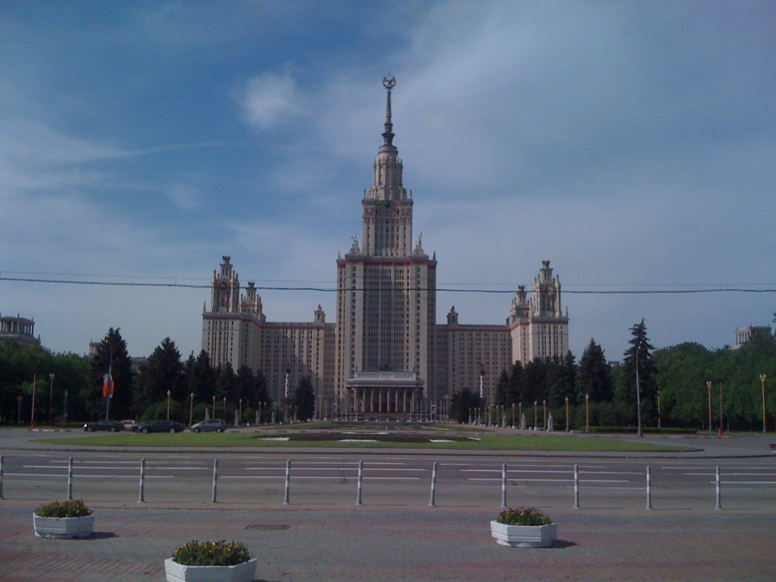 Moscow, the main building of Moscow State Univesity